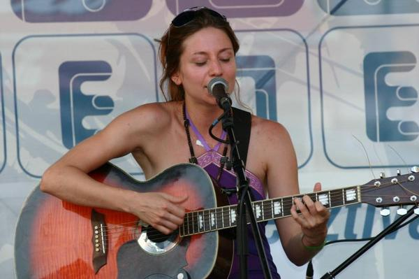 Takats Eszter in Veszprem.